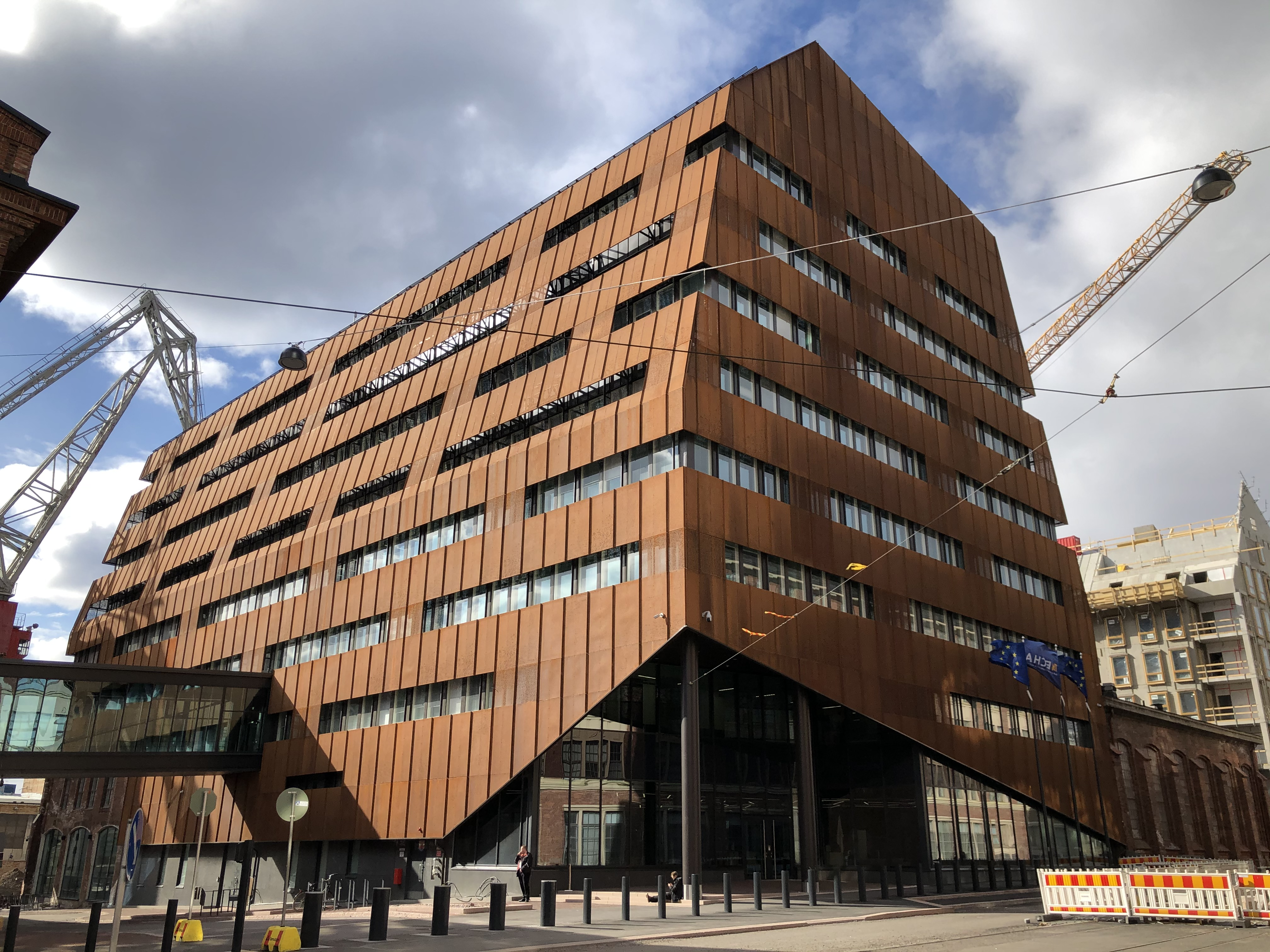 European Chemicals Agency Headquarters at Telakkakatu in Helsinki, Finland. Photo taken on April 10 2020.